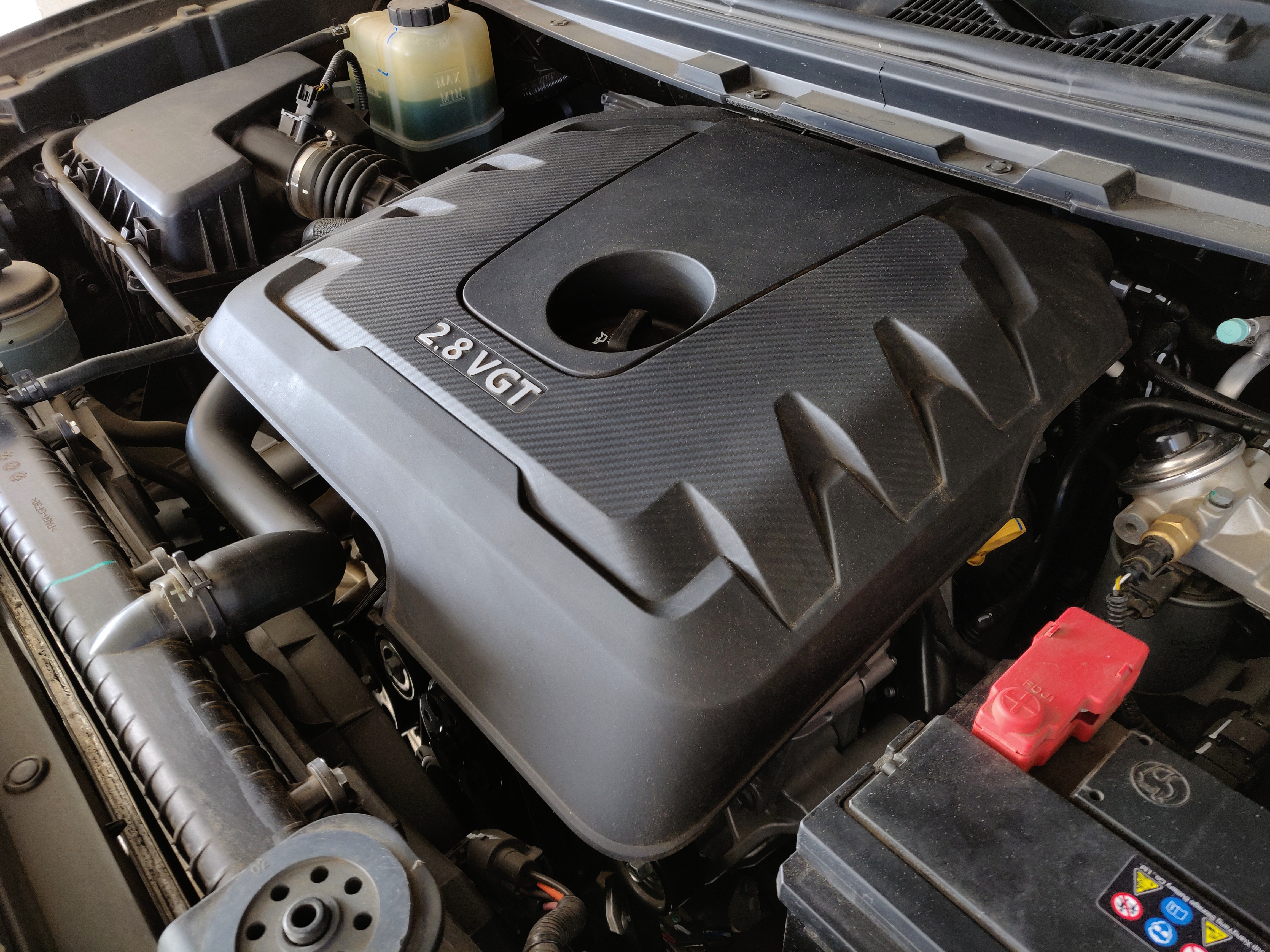 Maxus T60 engine SC28R